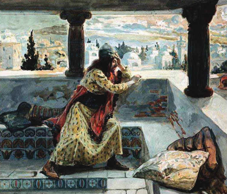 Bathsheba Bathing